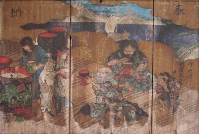 Kamui nomi ema by Kawanabe Kyosai, Otsuinaka Jinja, Toyokoro, Hokkaido, Japan